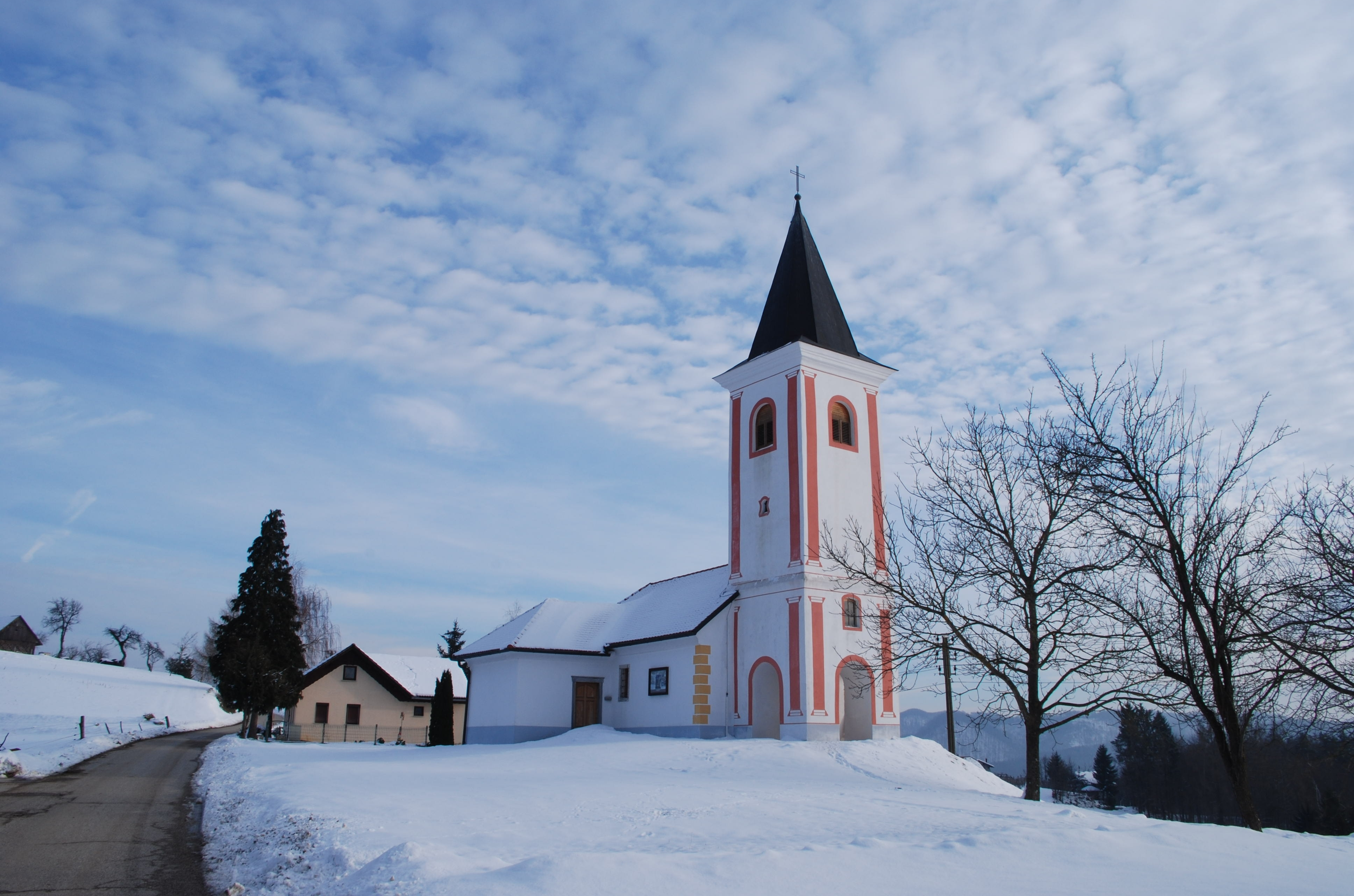 St. Anne's Church in the hamlet of Okič, Vrh pri Boštanju (southeastern Slovenia). The church was built in the 17th century. It was also mentioned by Valvasor.